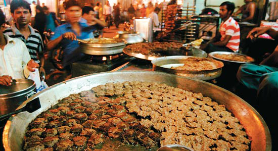 Tunday's Gelawati Kababs, Lucknow's specialty and famous throughout the world.